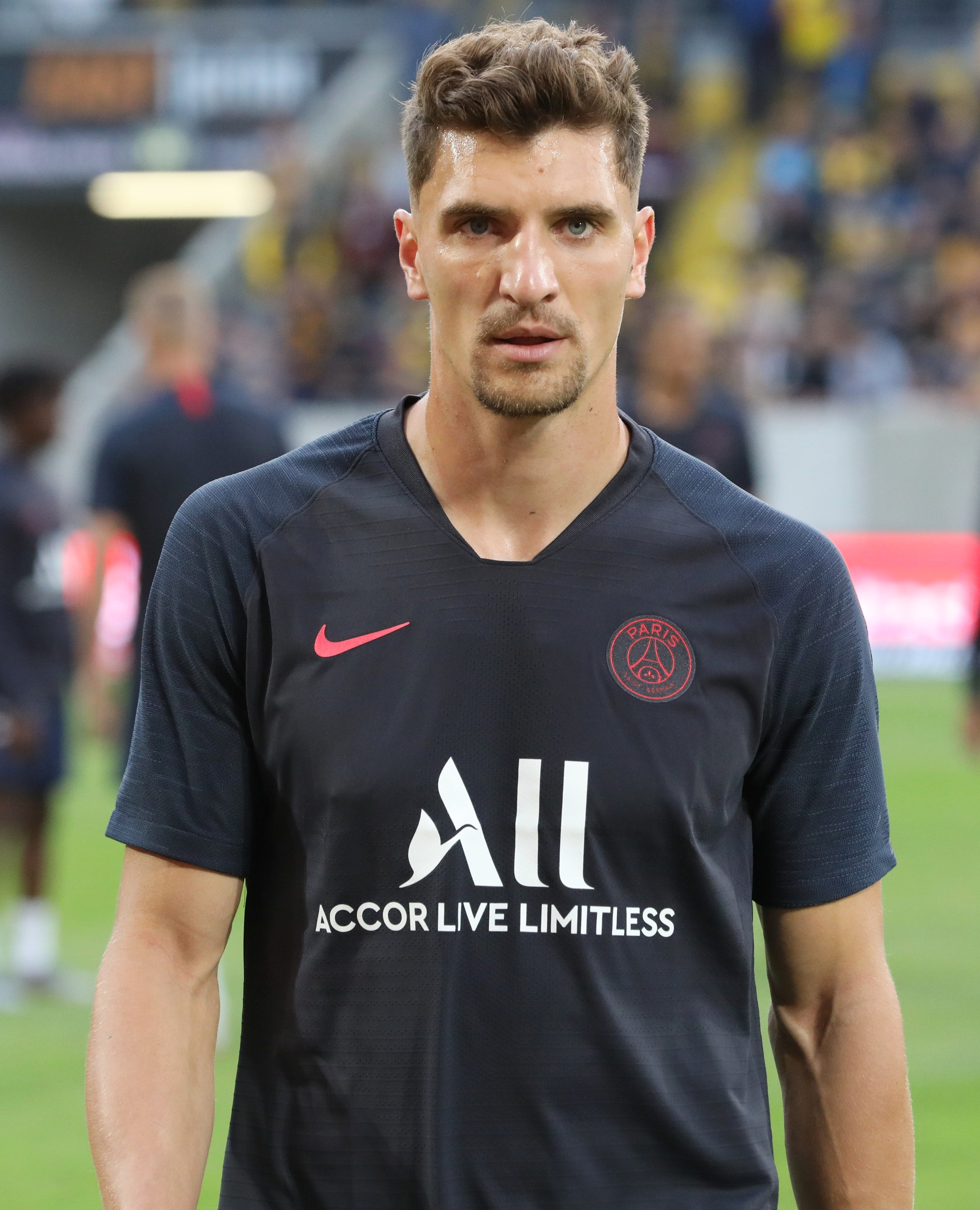 Test game, 17th July 2019: SG Dynamo Dresden vs. Paris Saint-Germain 1:6 (0:3)